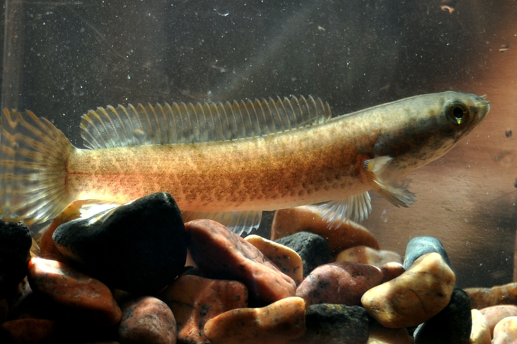 Dwarf snakehead, Channa gachua, 60mm SL. From Karawang, West Java. Dorsal fin 34, anal 22, pectoral 13, pelvic present.